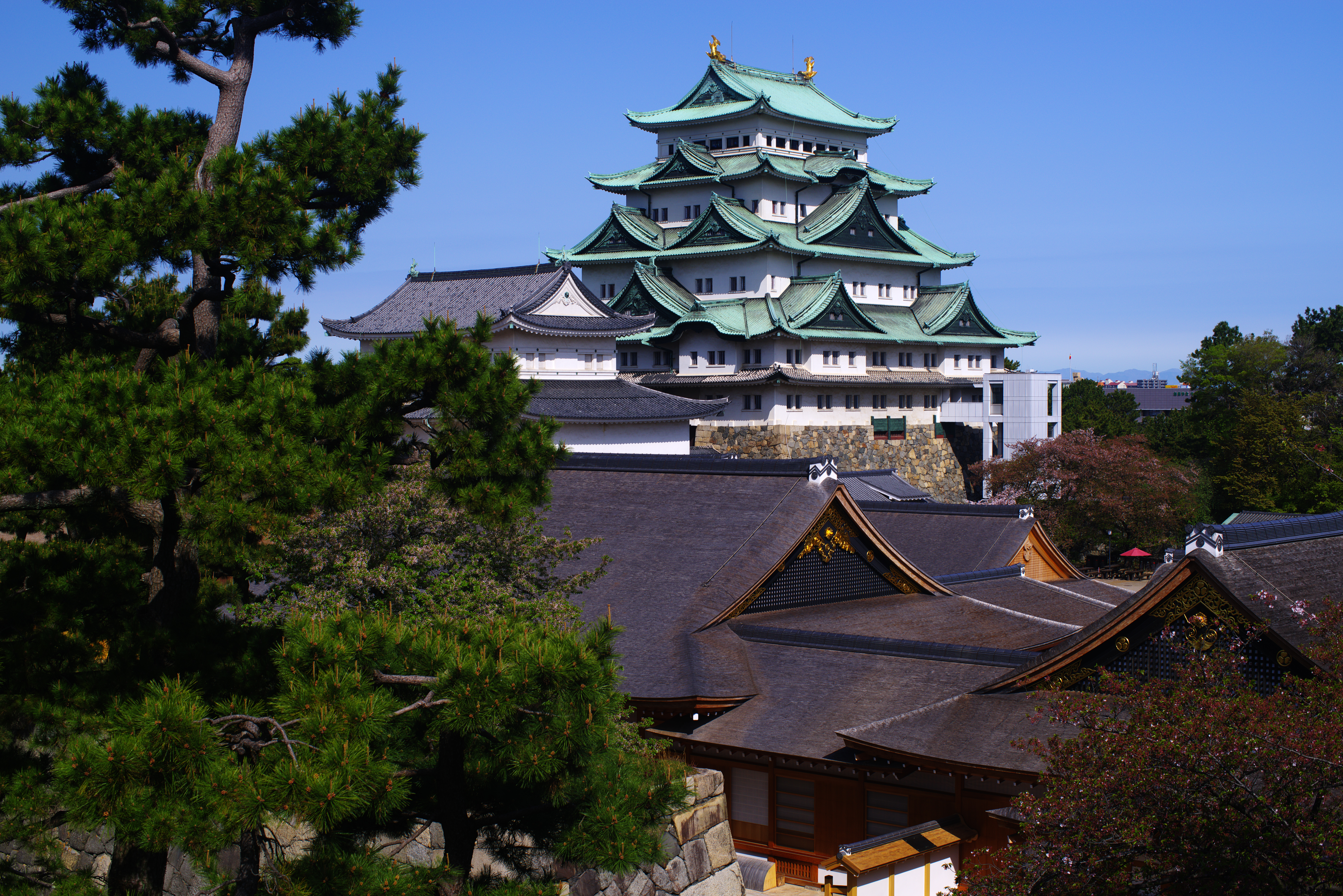 Tenshu and Honmaru Goten of Nagoya Castle. April, 2018.